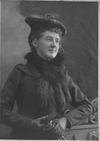 Half length portrait of Jane Mander wearing a beret, fur stole and gloves. Please acknowledge 'Sir George Grey Special Collections, Auckland Libraries, 7-A9827' when re-using this image.